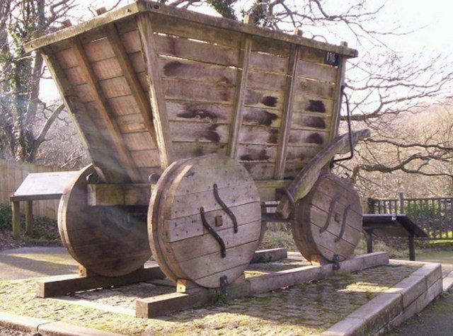 Wooden coal truck